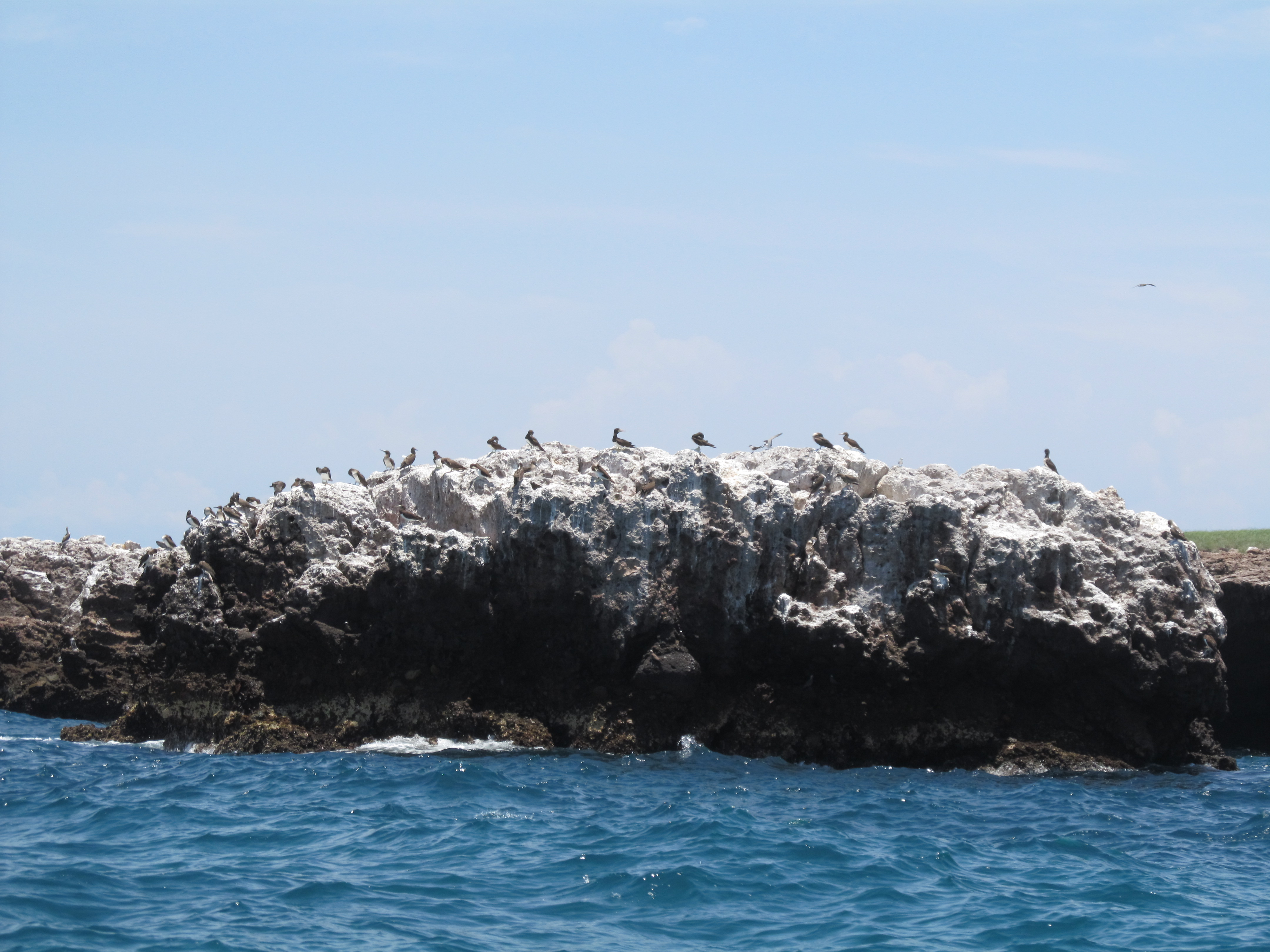 Parque Nacional Islas Marietas, en Bahia de Banderas, Nayarit, MEXICO The Marieta Islands National Park in Mexico